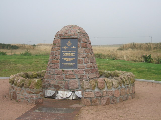 RAF Cairn, Longside Airfield. in memory of the Squadron based at WW2 strategic east-coast airfield